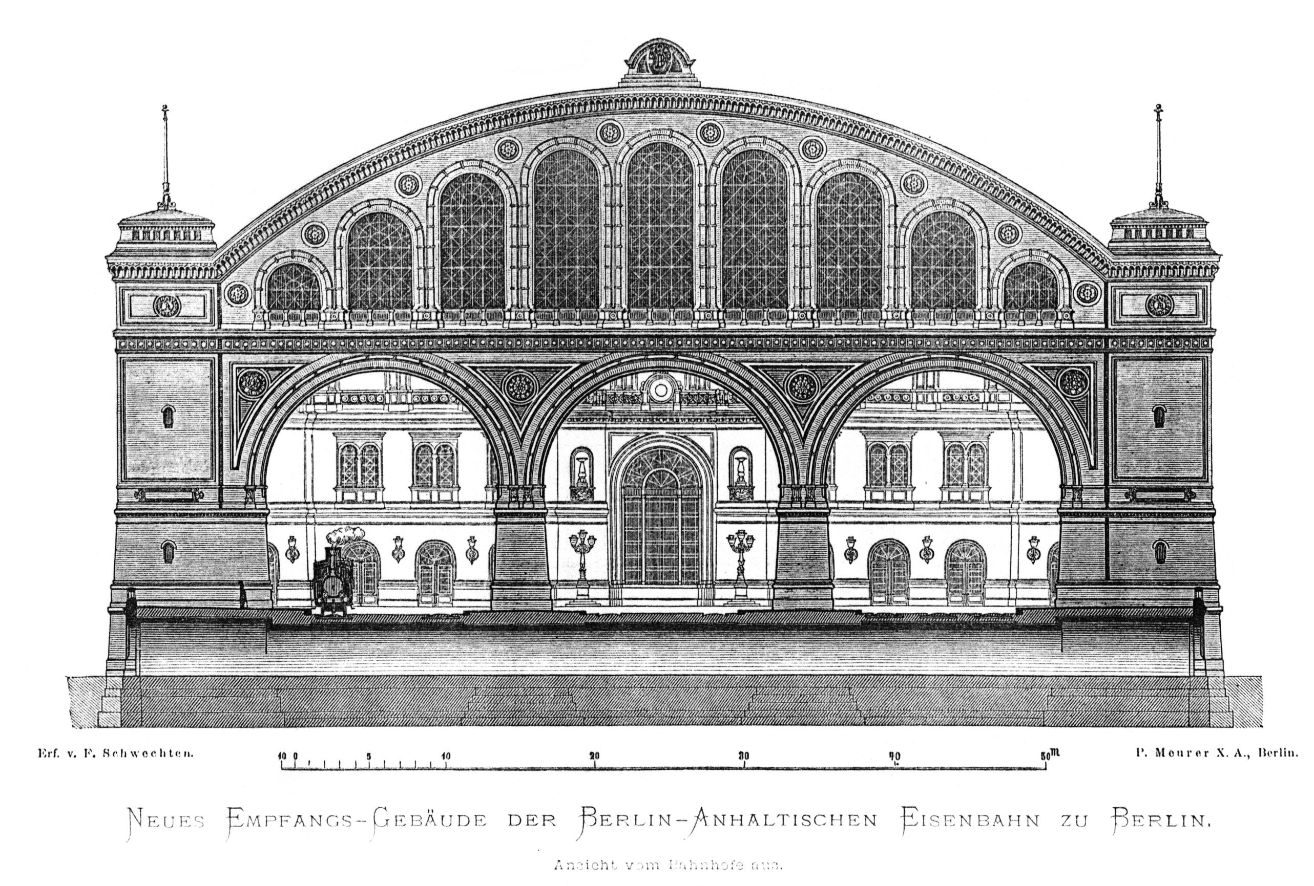 Berlin - Anhalter Bahnhof, elevation of southern facade